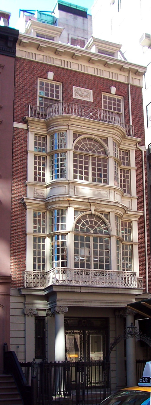 Collectors Club of New York; a landmark building on 35th Street, in the Murray Hill section of New York city.